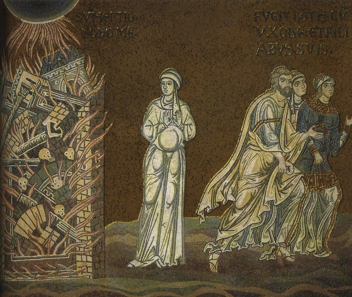 Sodom's destruction; Lot and daughters escapes